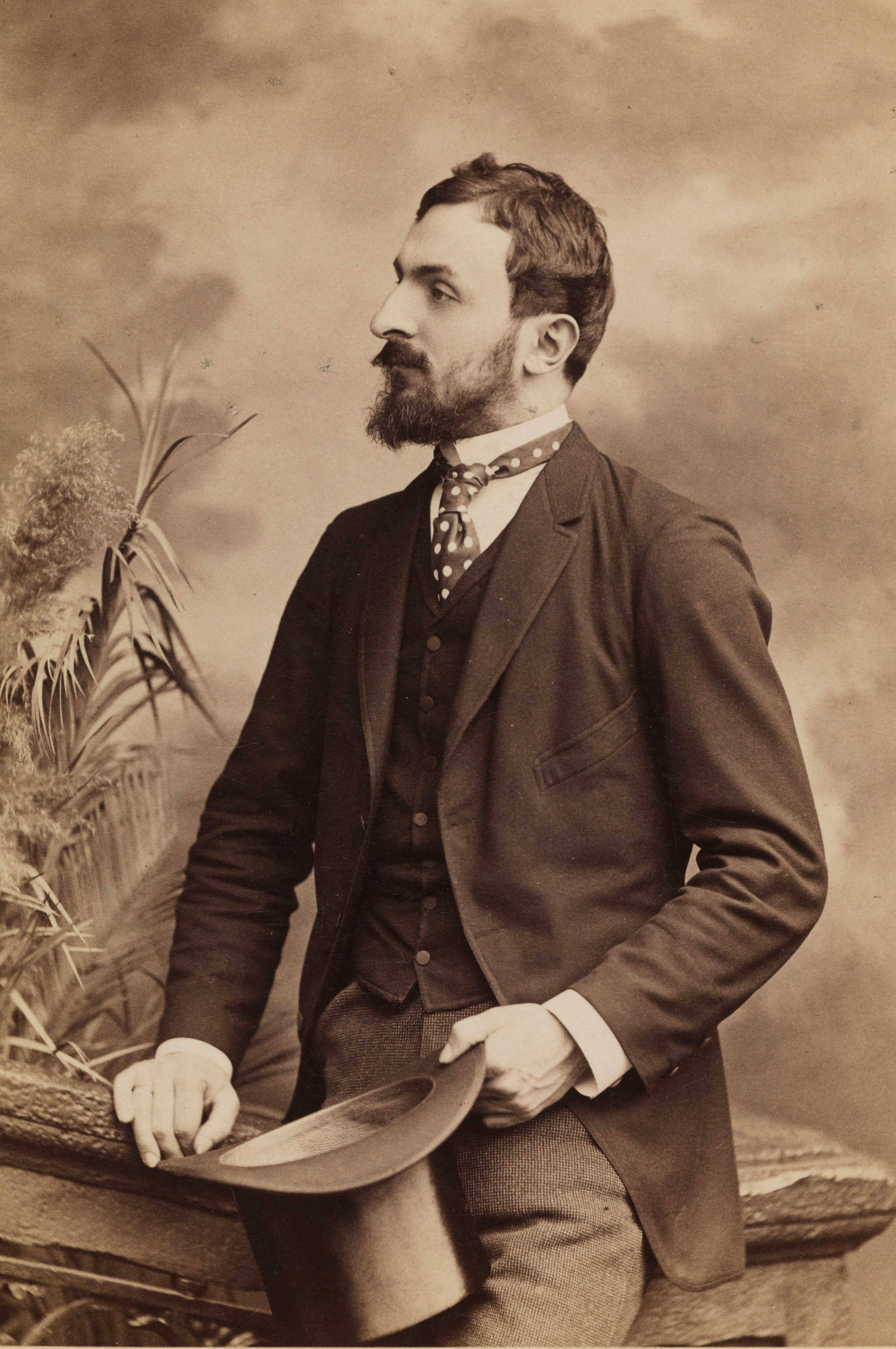 Stanisław Pomian Wolski